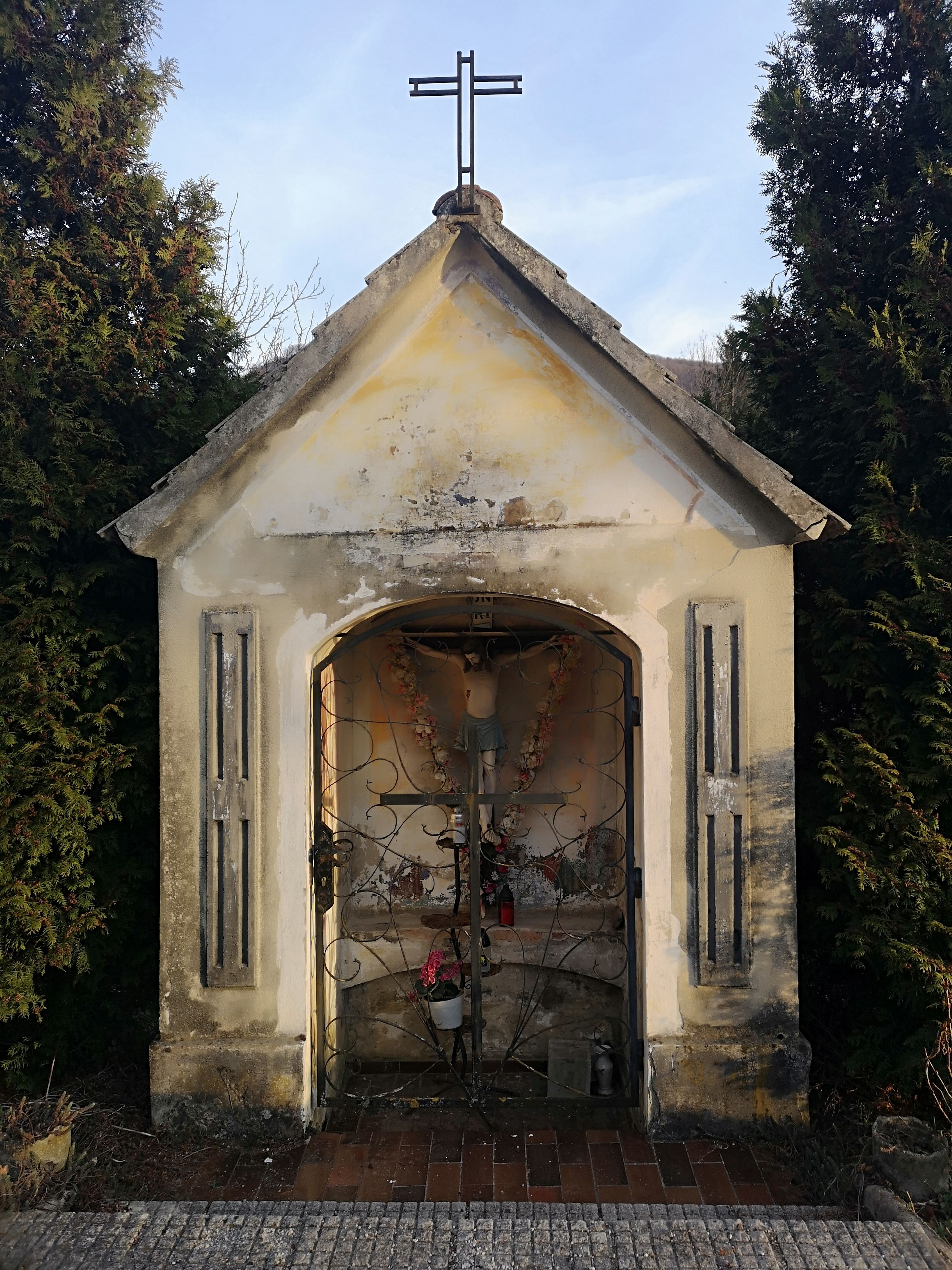 Wayside chapel-shrine in Beli Potok pri Frankolovem (eastern Slovenia).